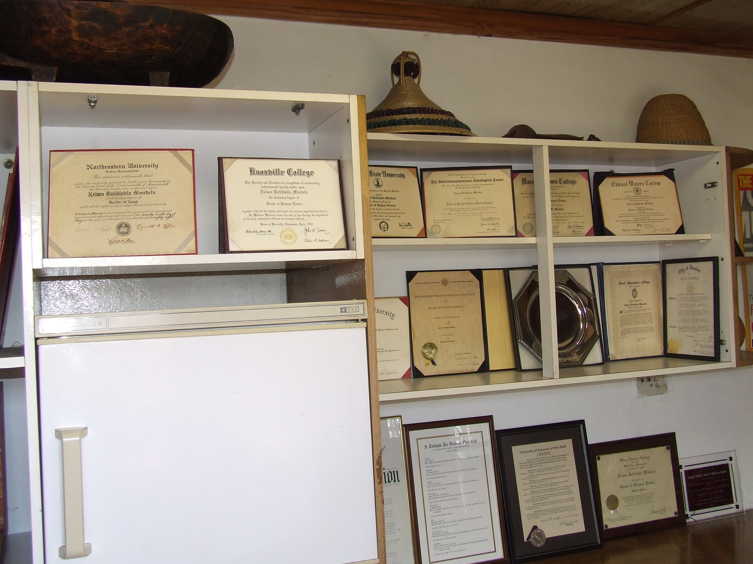 Mandela House Taken in kitchen area. More honorary degree & doctorate certificates conferred on Mandela